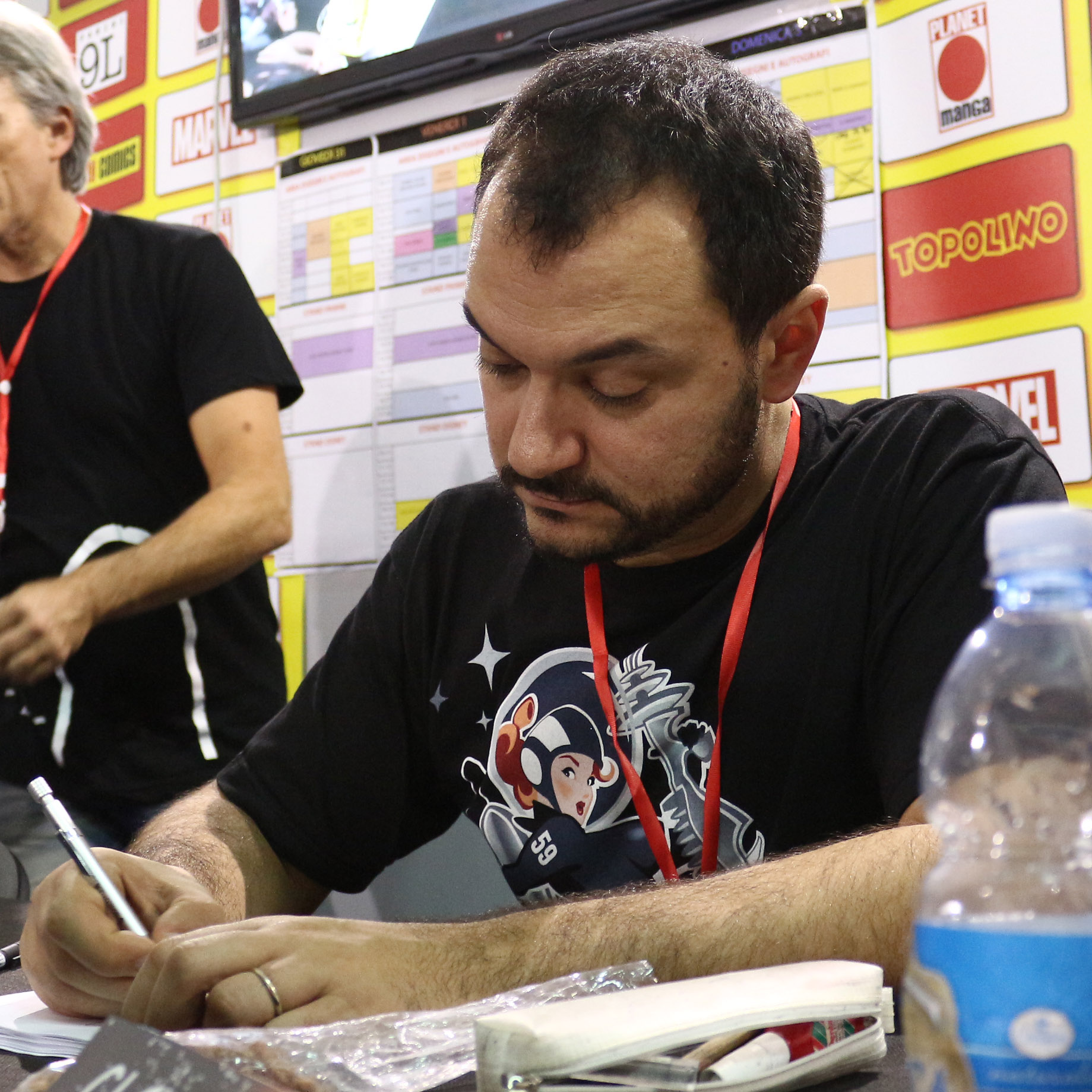 Claudio Sciarrone at Lucca Comics 2013